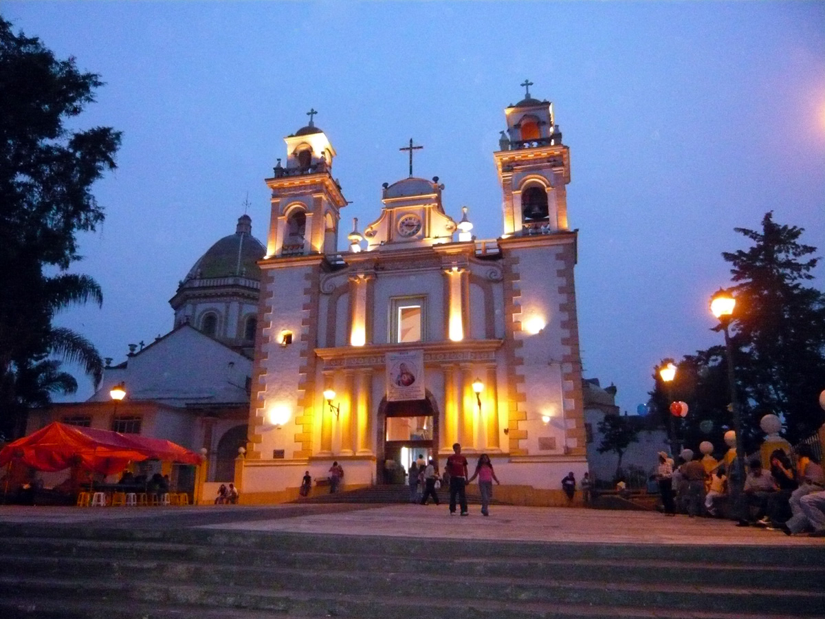 Cathedral of Xico, Veracruz